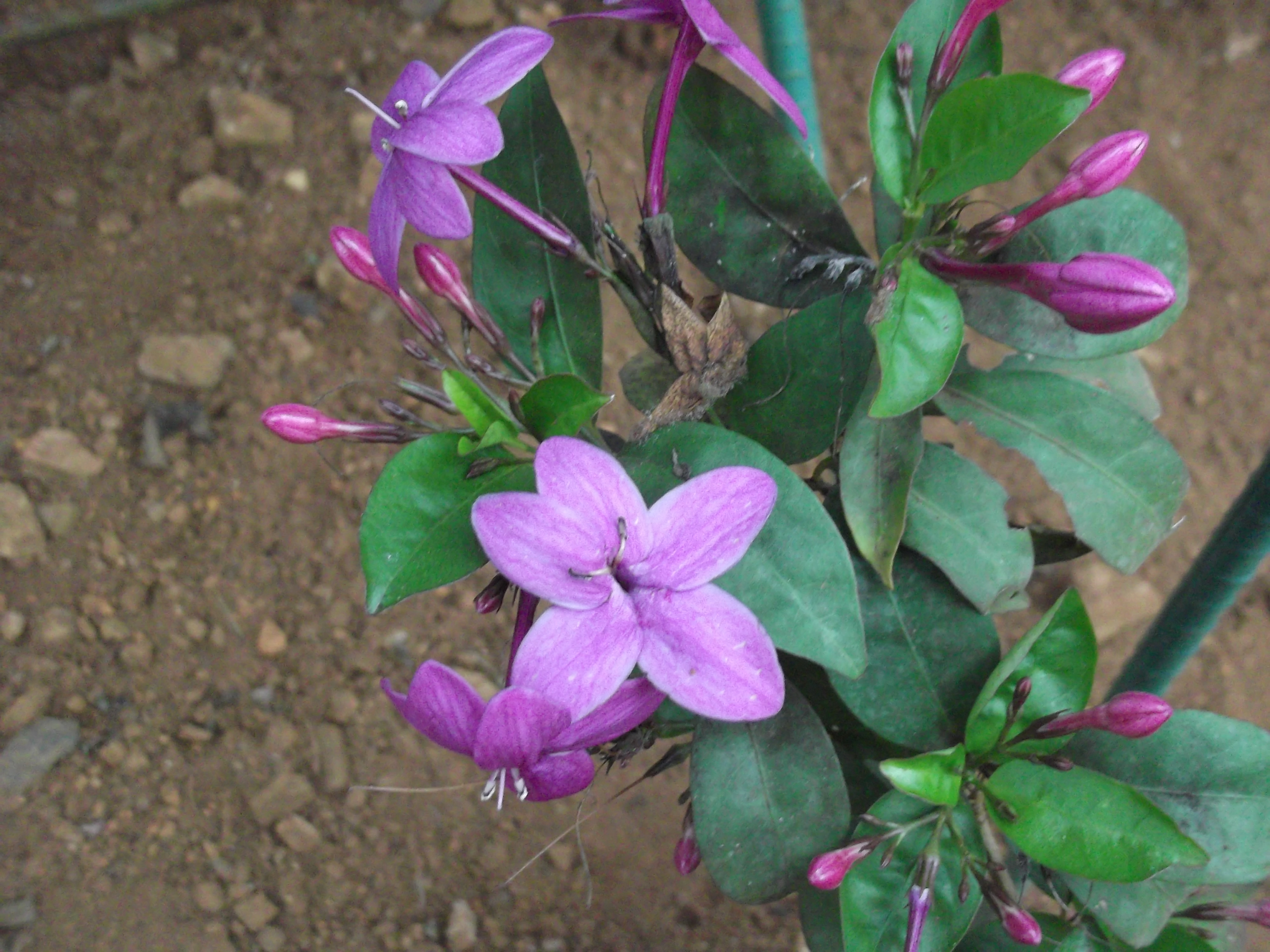 A small shrub,flowers purplish pink.